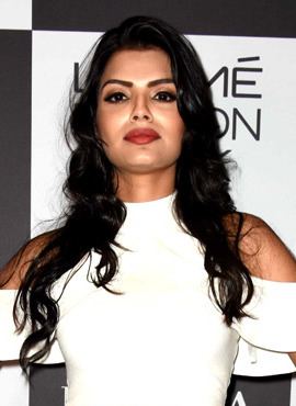 Sonali Raut at Lakme Fashion Week 2017, Day 5